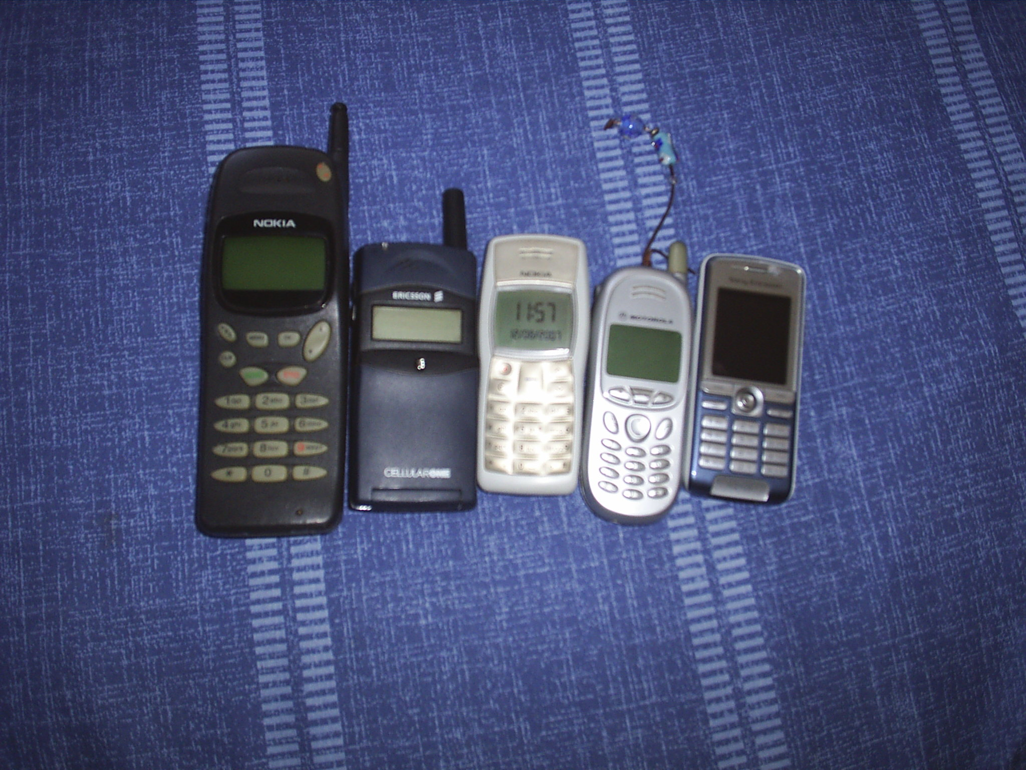 Several Cellphones: Nokia 918, Ericsson DDH668, Nokia 1100, Motorola T191 and Sony Ericsson K310